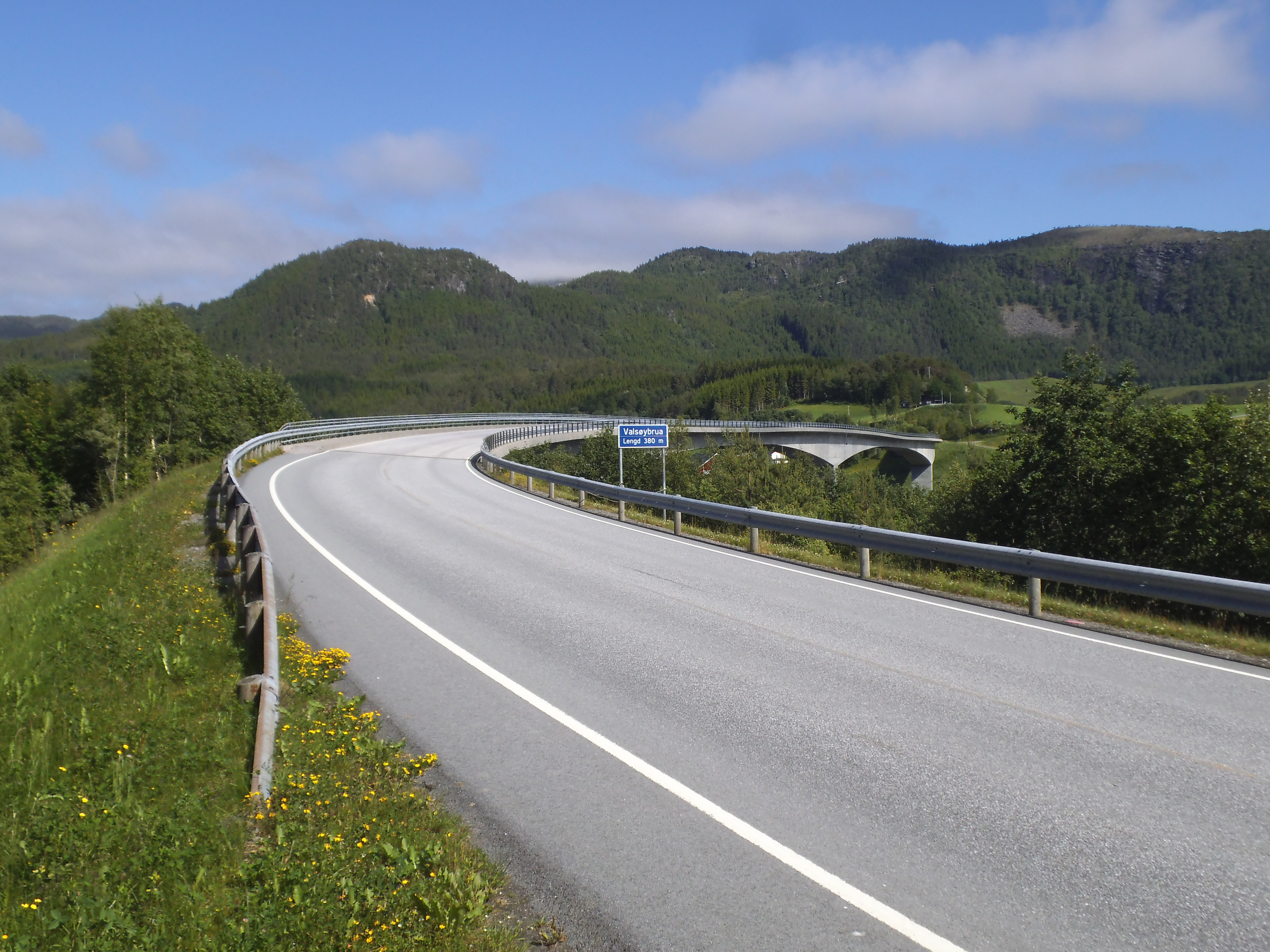 Valsøybrua (a bridge) in 2015